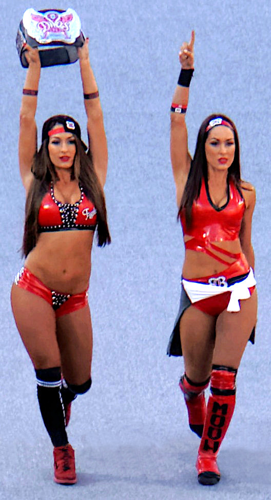 Nikki Bella vs Charlotte.